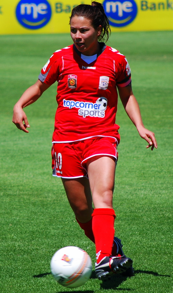 Balomenos on her return from a knee reconstruction against Perth Glory (2010)